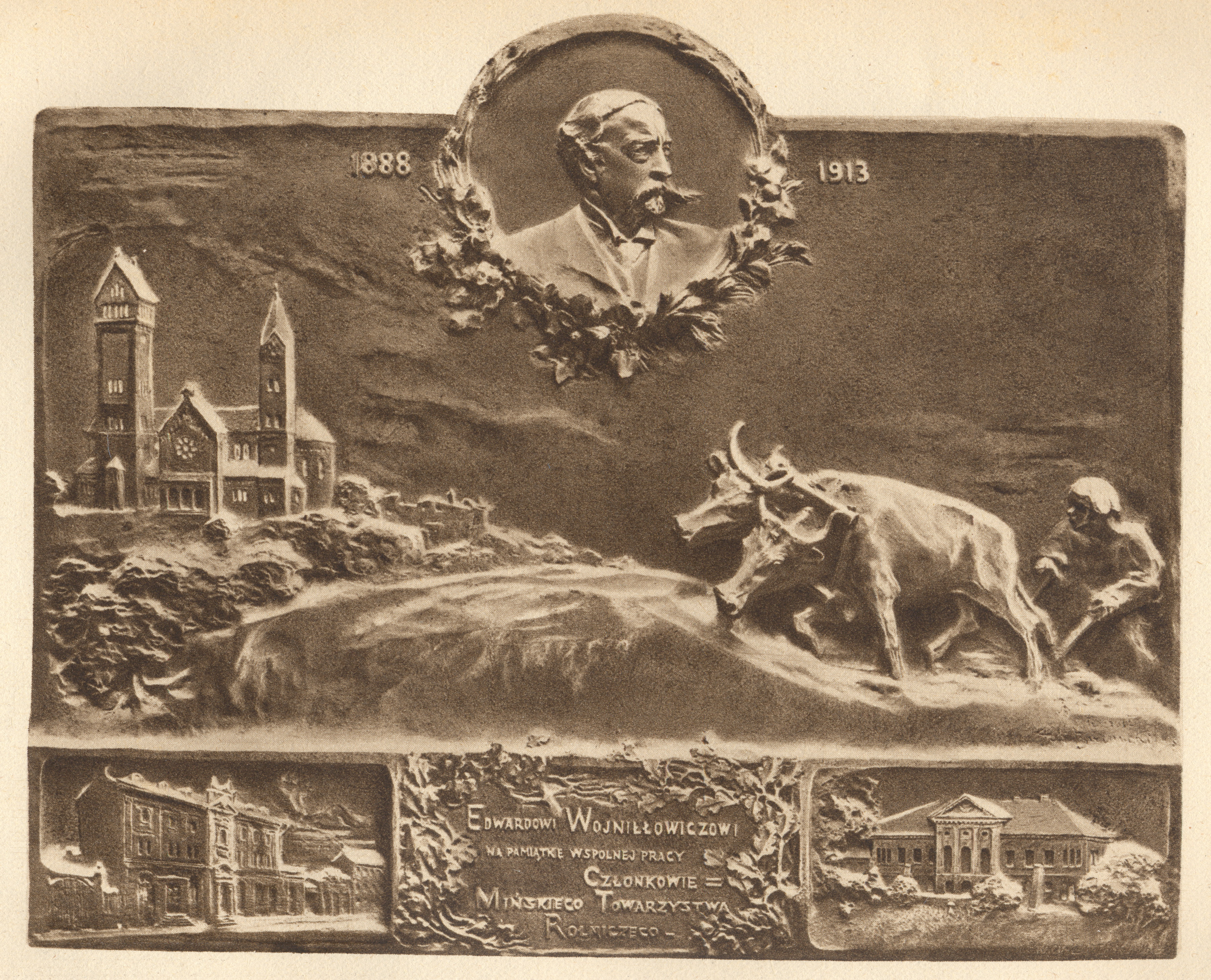 Badge presented to Edward Woynillowicz by Minsk agricultural society's members in 1913 AD